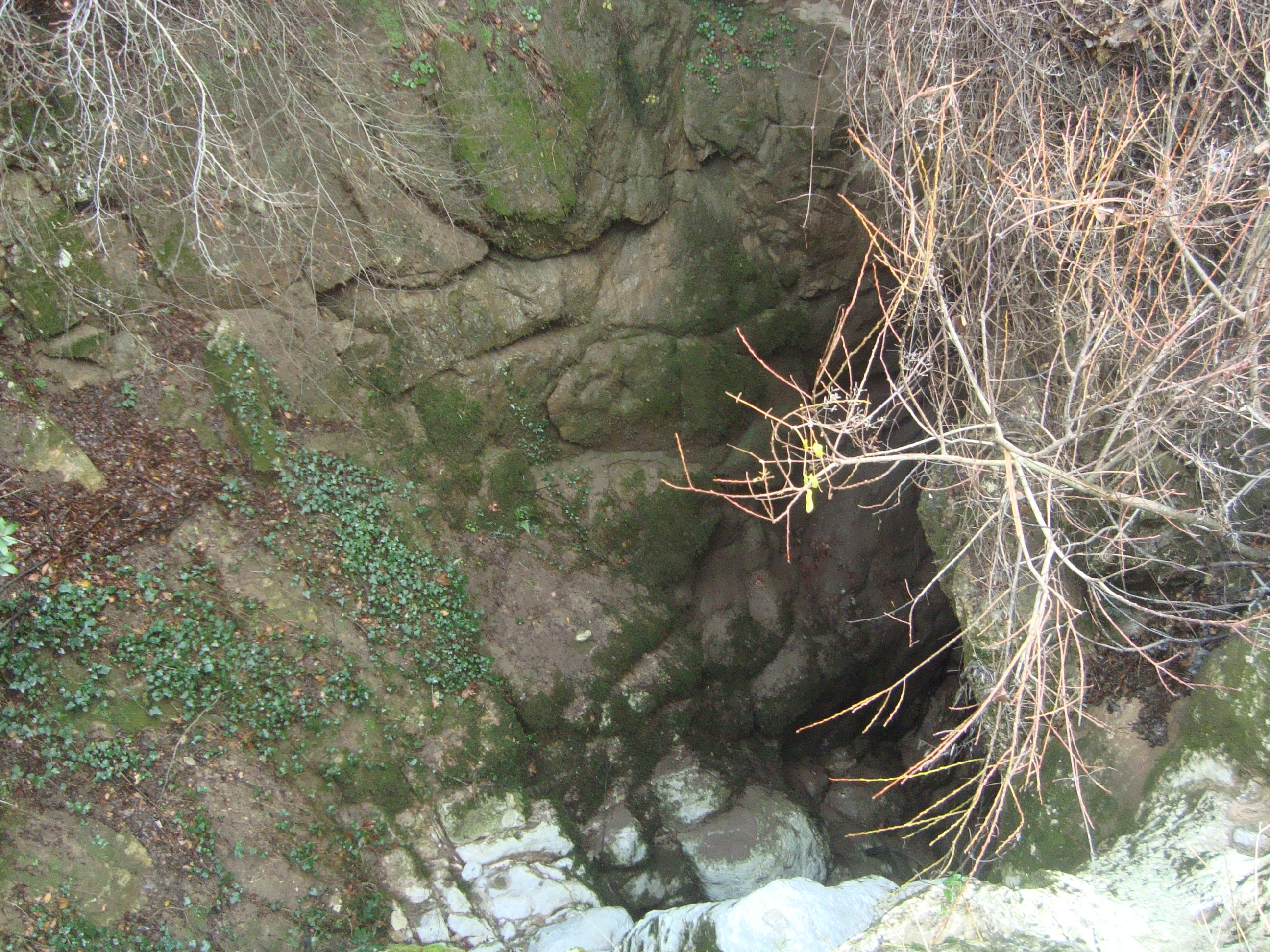 Diakotripa, Cave - pits in Kryobrysh Elis Greece